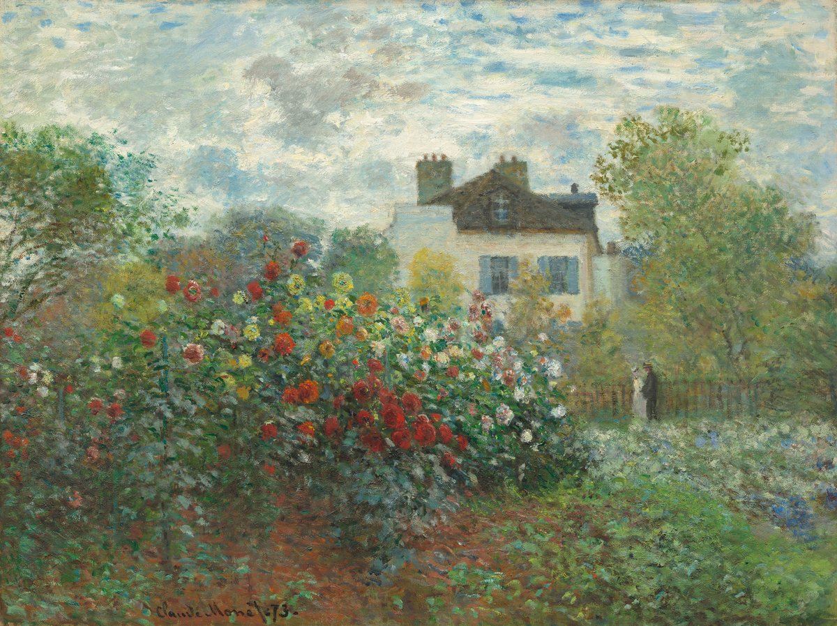 The Artist's Garden in Argenteuil (A Corner of the Garden with Dahlias), 187361x82,5 cm.